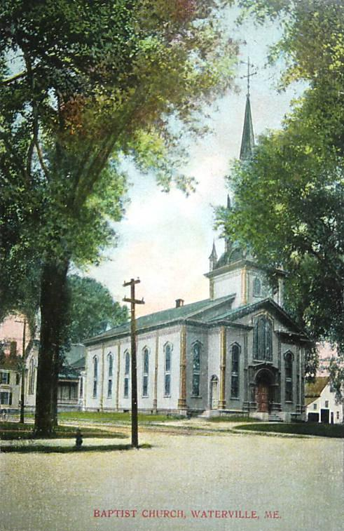 First Baptist Church, Waterville, Maine. It was first built in 1826, with remodeling in 1851 and 1875.